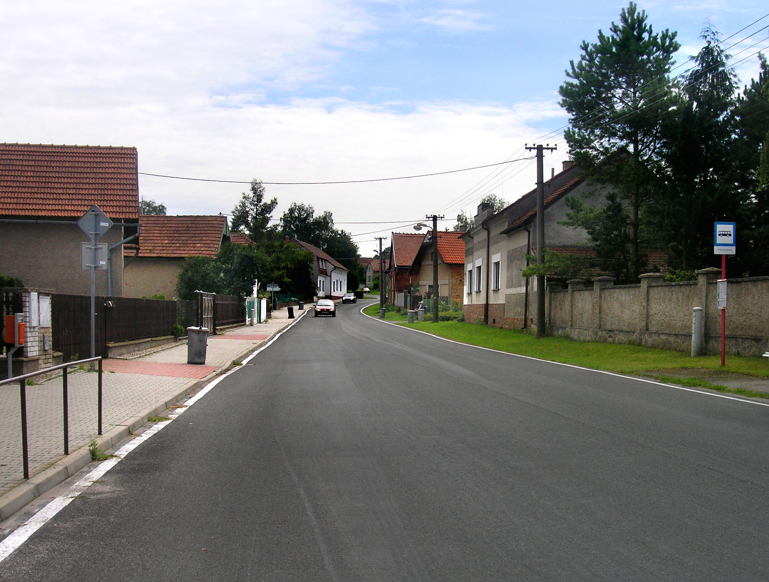 Polní Chrčice, Czech Republic